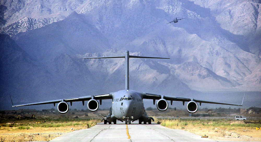 BAGRAM AIR BASE, Afghanistan -- A C-17 Globemaster III from Charleston Air Force Base, S.C., moves up the taxiway as another begins its climb over the mountains surrounding this base. Airlift serves a vital role in ongoing operations in this landlocked country, bringing critical supplies and equipment to coalition forces supporting Operation Enduring Freedom. (U.S. Air Force photo by Maj. Dave Honchul)